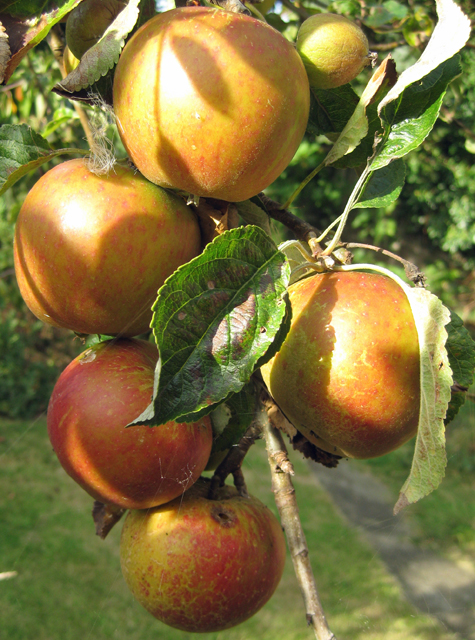 Cox's Orange Pippin Nothing quite like an Apple straight off your own tree.